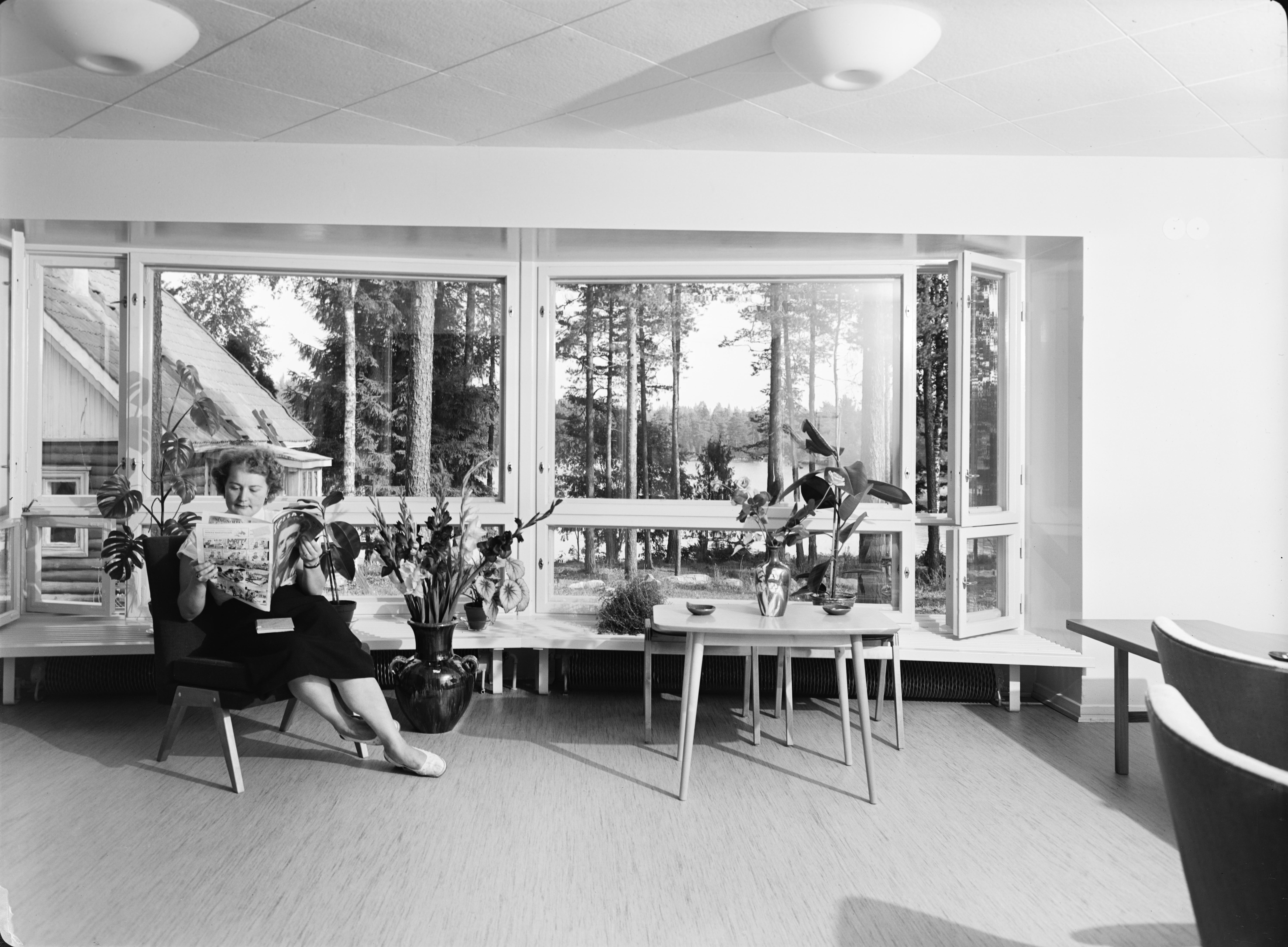 Promotional image of Hotel Lepolampi in Espoo. The hotel was owned by Lomaliitto organization, that offered free or low-cost vacations to working class people who couldn't afford them themselves. / Lomaliiton Espoossa sijainneen Hotelli Lepolammen mainoskuva. Liitto järjesti ilmaisia tai halpoja lomia vähävaraisille. photographer unknown / kuvaaja tuntematon 1955 Espoo, Uusimaa, Finland Finnish Museum of Photography / Suomen valokuvataiteen museo